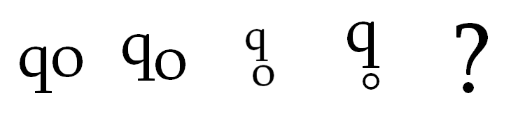 ? evolution of the question mark symbol